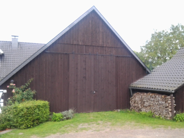 Barn in Oeldorf (Kürten) naer Cologne, 20 August 2013. Photograph by Gustavo Oliveira Alfaix Assis.